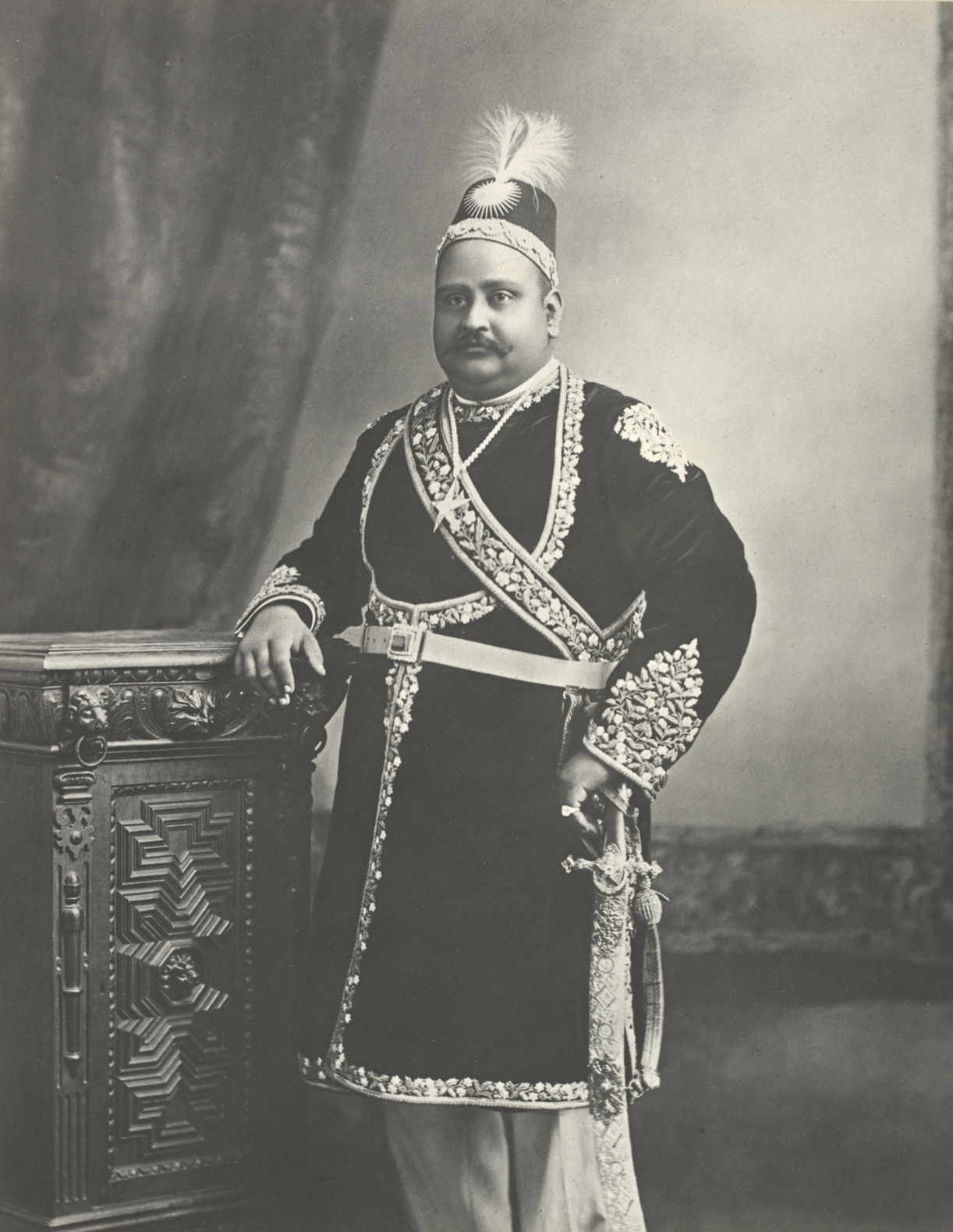 Nawab Sir Khwaja Salimullah Bahadur GCSI